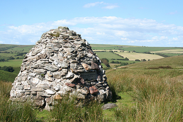 Exmoor: cairn. The cairn commemorates John William Fortescue, historian of the British Army, 1859-1933. Looking north above Drybridge Combe with the South Molton-Simonsbath road on the right